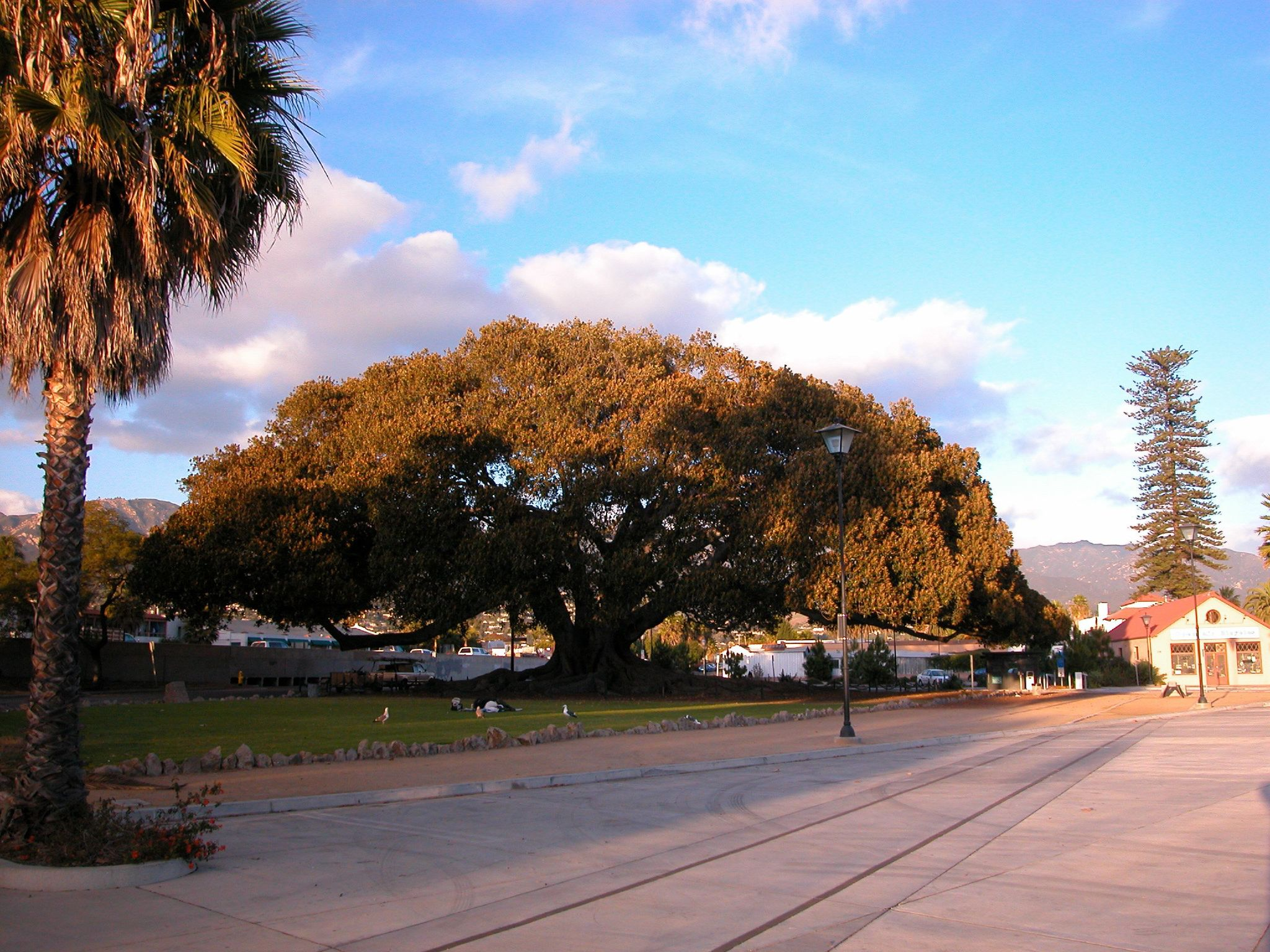 In 1876, a visiting seaman supposedly gave a seedling of this Morton Bay Fig tree to a girlfriend in Category:Santa Barbara, Southern California. A year later, the friend replanted it in its current location - the corner of Chapala and Montecito. It is now one of the largest of all Ficus macrophylla trees in the United States. It is on the California Register of Big Trees. The tree averages 80' in height, 176' in average crown spread and over 40' in diameter. "It is an awesome sight!"